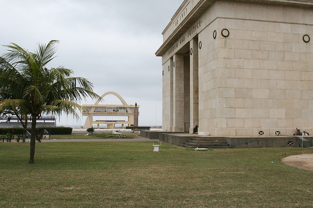 Taken by Guido Sohne with a Canon EOS 30D camera. Black Star Square and Independence Arch, Accra, Ghana. Black Star Square and Independence Arch are located very close to each other.